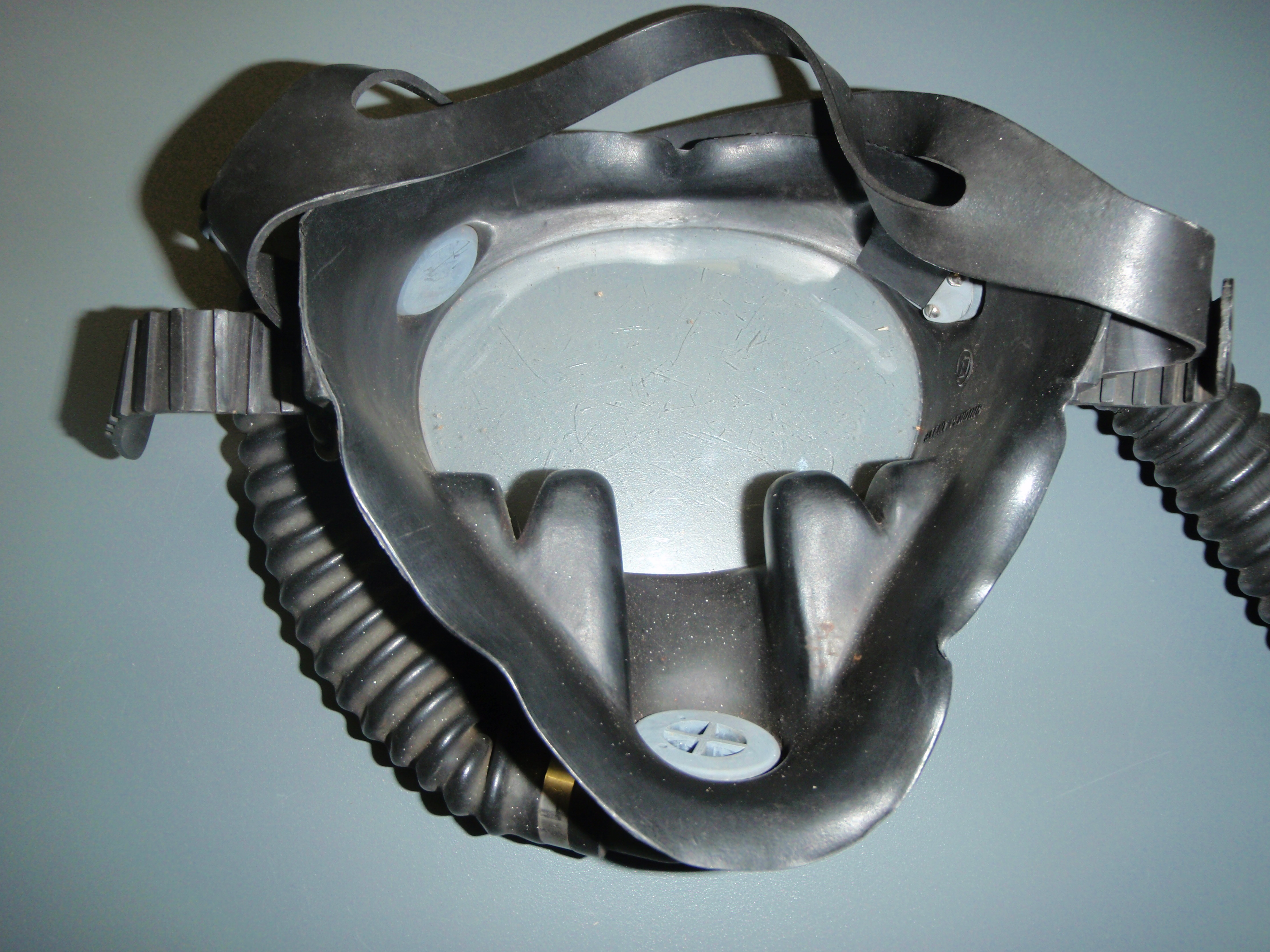 A lightweight free flow full face mask made for use with an airline supplied by a small compressor mounted on a float. View of the inside of the mask